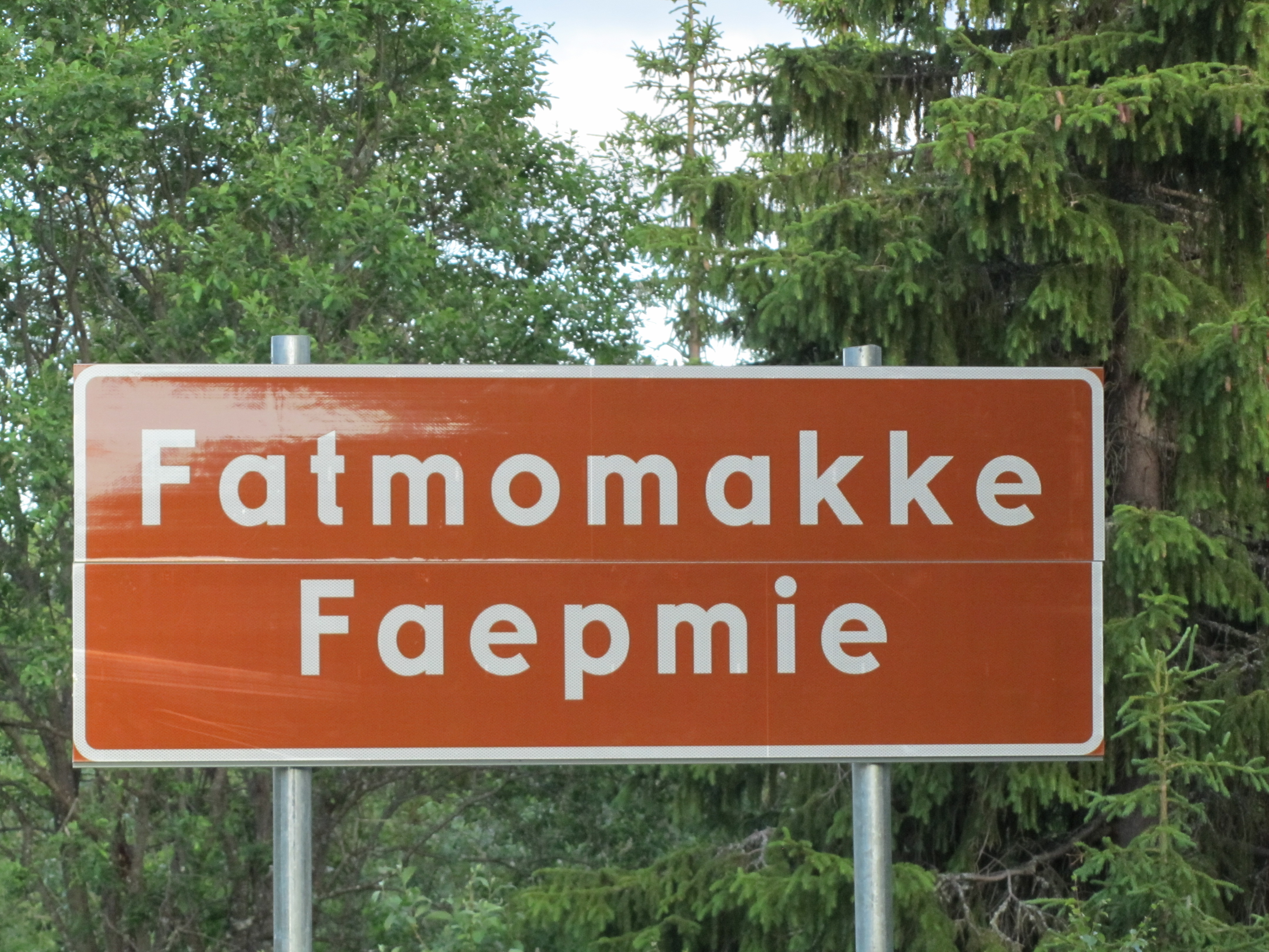 Roadsign in Swedish and South Sami at Fatmomakke/Faepmie in Vilhelmina kommun.